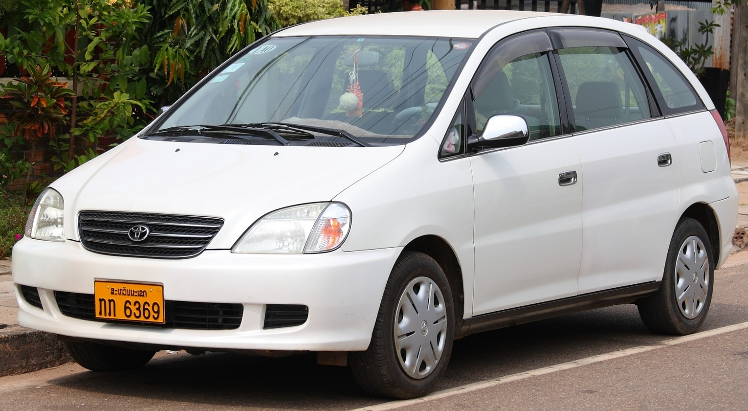 Toyota Nadia in Savannakhet, Laos